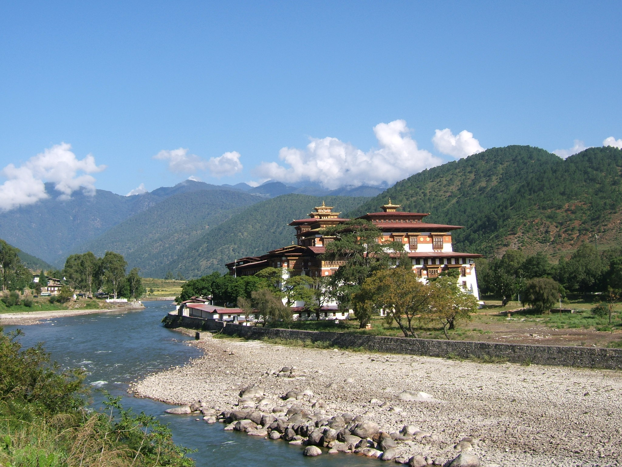 View of Punakha valley in Bhutan with Punthang Dechen Photrang Dzong and Mo Chu River. October 2006.